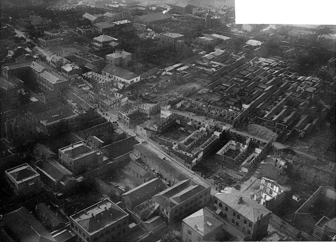 Image from La Chine à terre et en ballon.